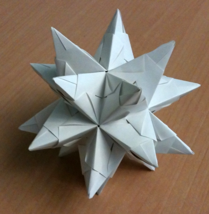 This is a Bascetta Star, a Star of Bethlehem which consists of a modular Origami